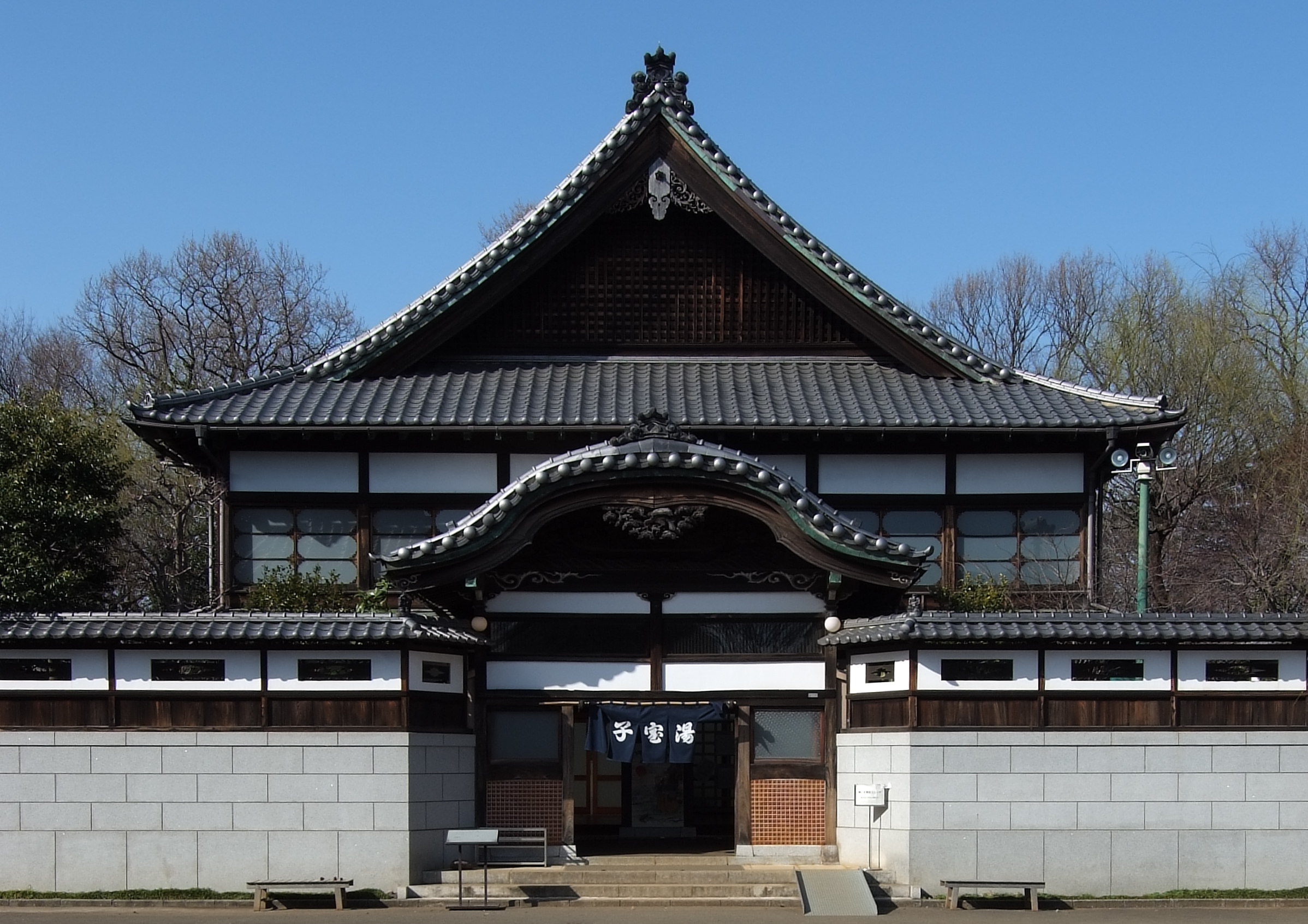 Kodakara-yu, at Edo-Tokyo Open Air Architectural Museum.